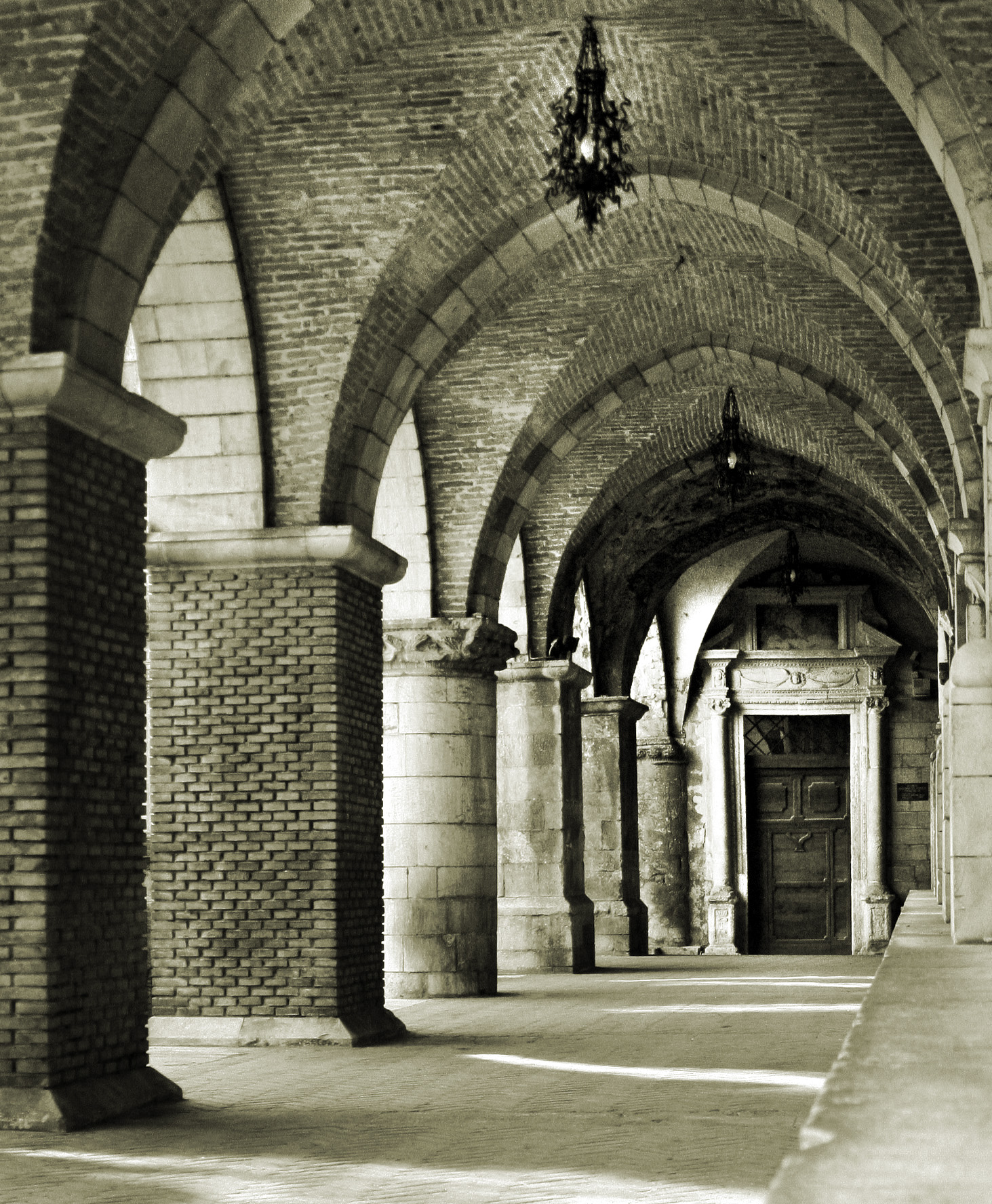 Example of groin vault in medieval architecture: the portico to the church of Santa Maria Maggiore at Guardiagrele in the Abruzzo region of southern Italy.